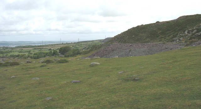 Tramway formation and slate waste tip at Moel Faban Quarry